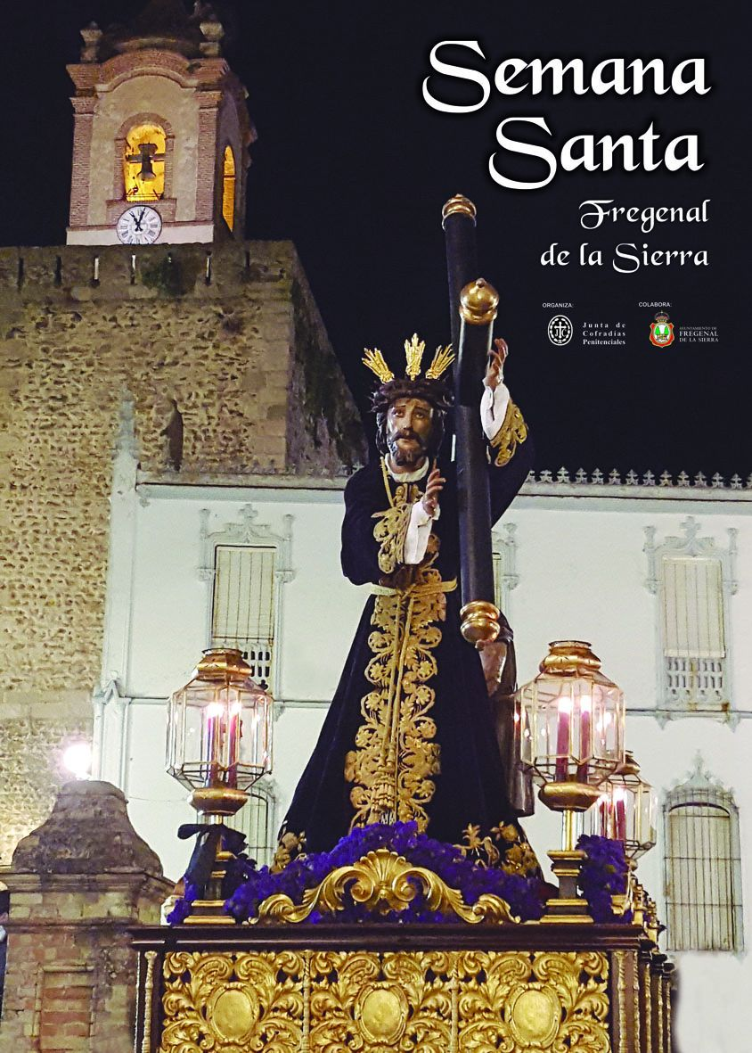 Our Lour Jesus on his Paso